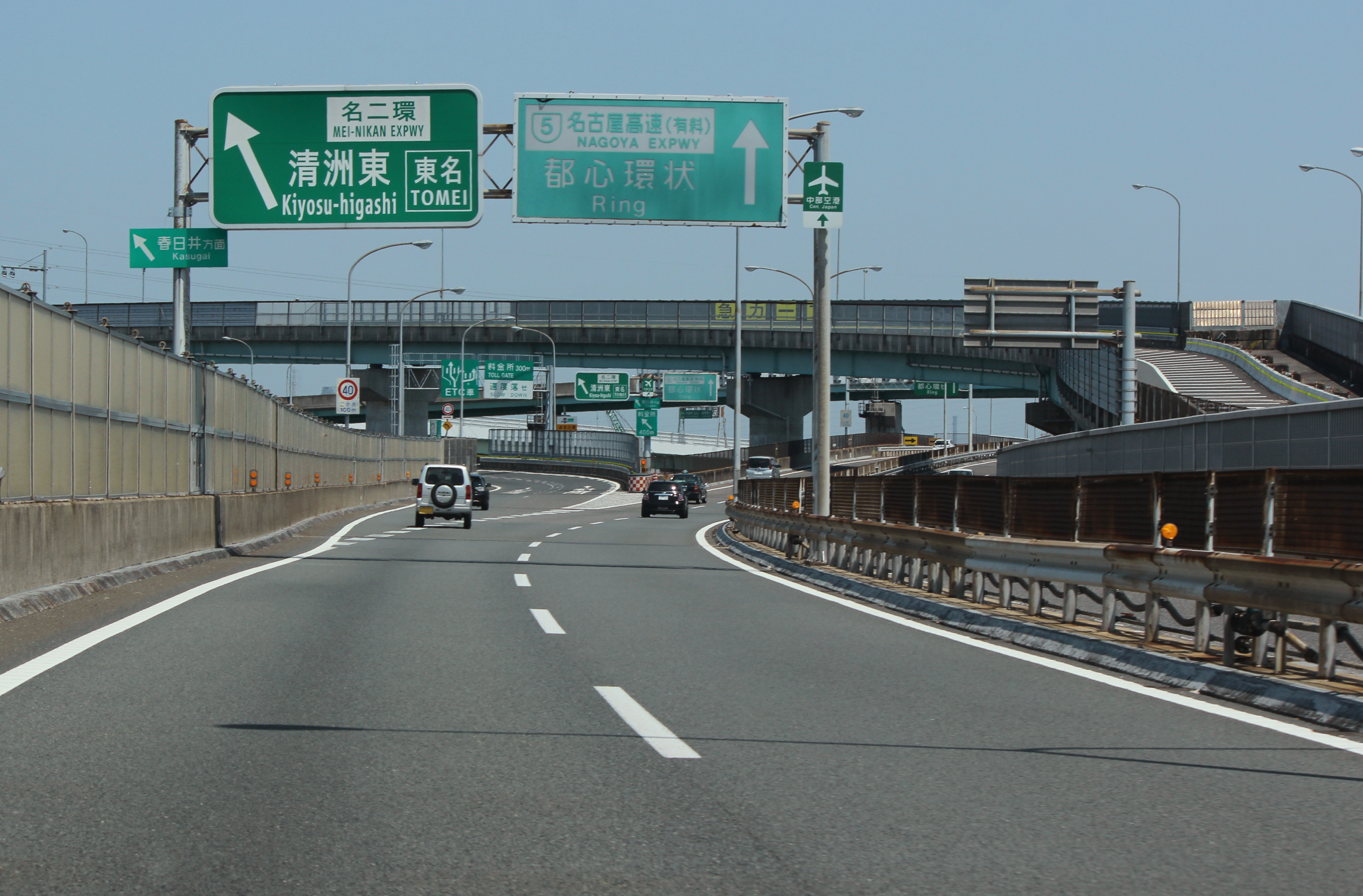 Nagoya-nishi Junction branch point for Nagoya-Daini-Kanjo Expressway and Nagoya Expressway